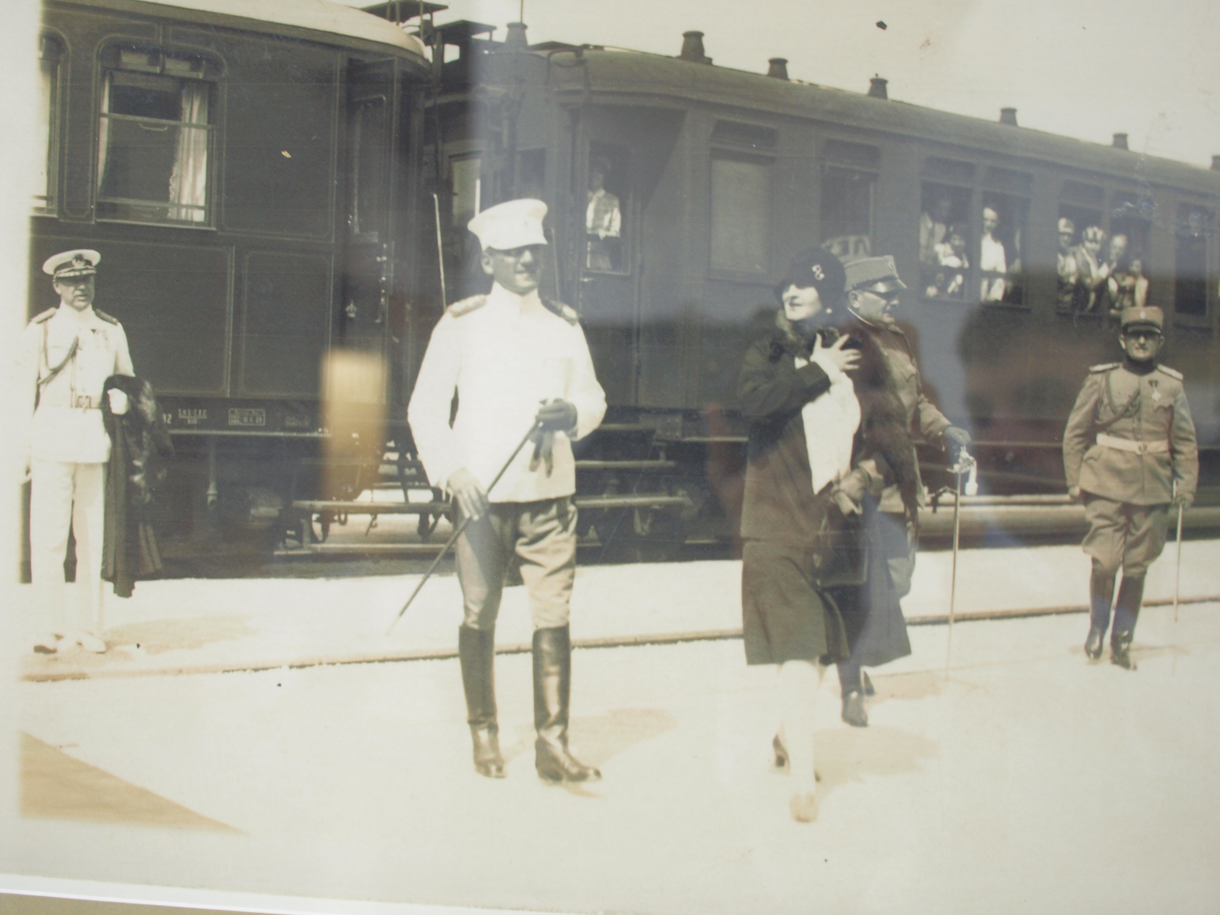 King Alexander I. Yugoslavia and Queen Maria at Topcider 1930th